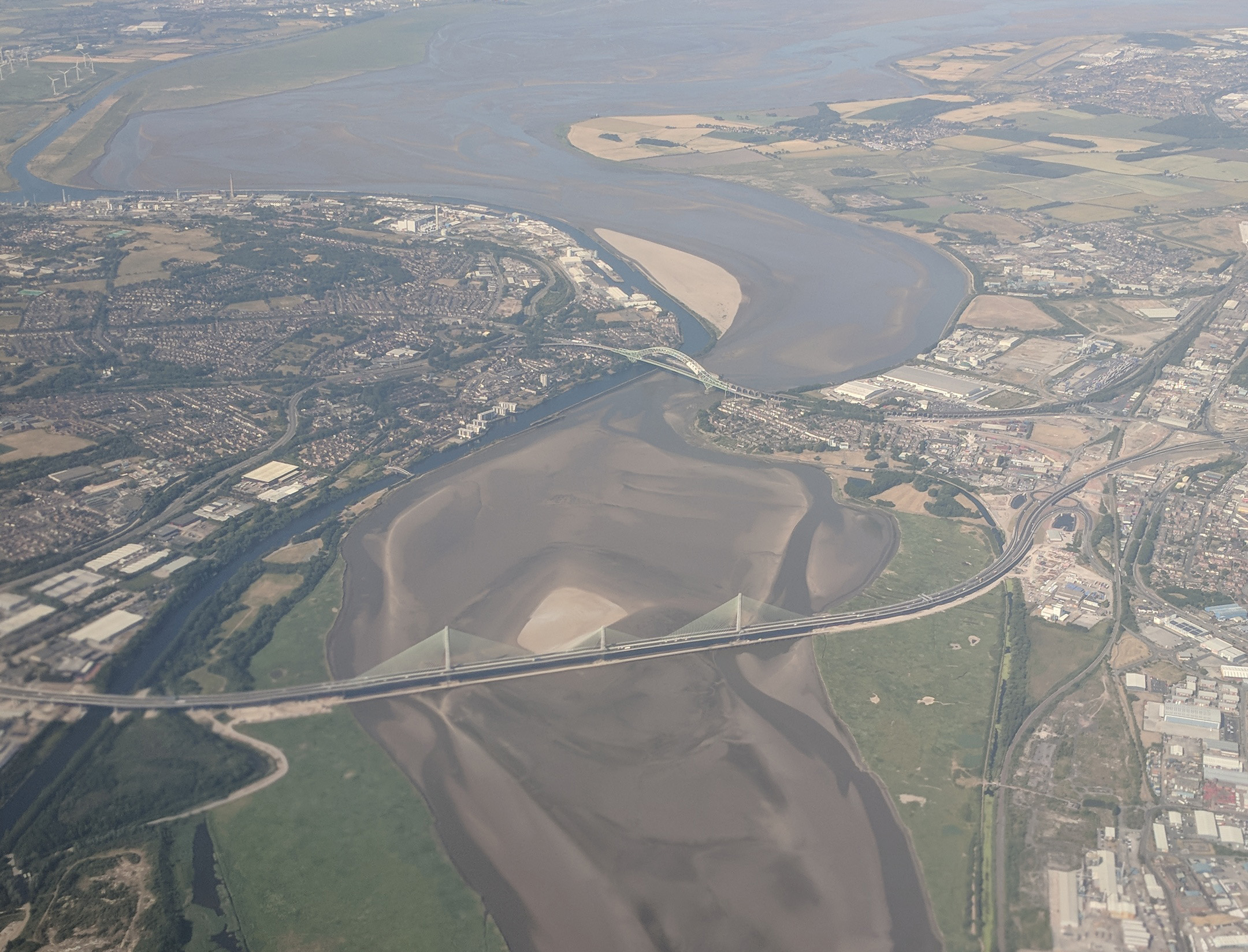 Aerial shot of the Mersey showing the two bridges at Runcorn